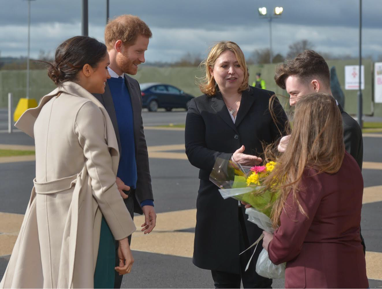 Karen Bradley MP welcomes Prince Harry and Ms. Markle as they embark on their first visit to Northern Ireland as a couple.